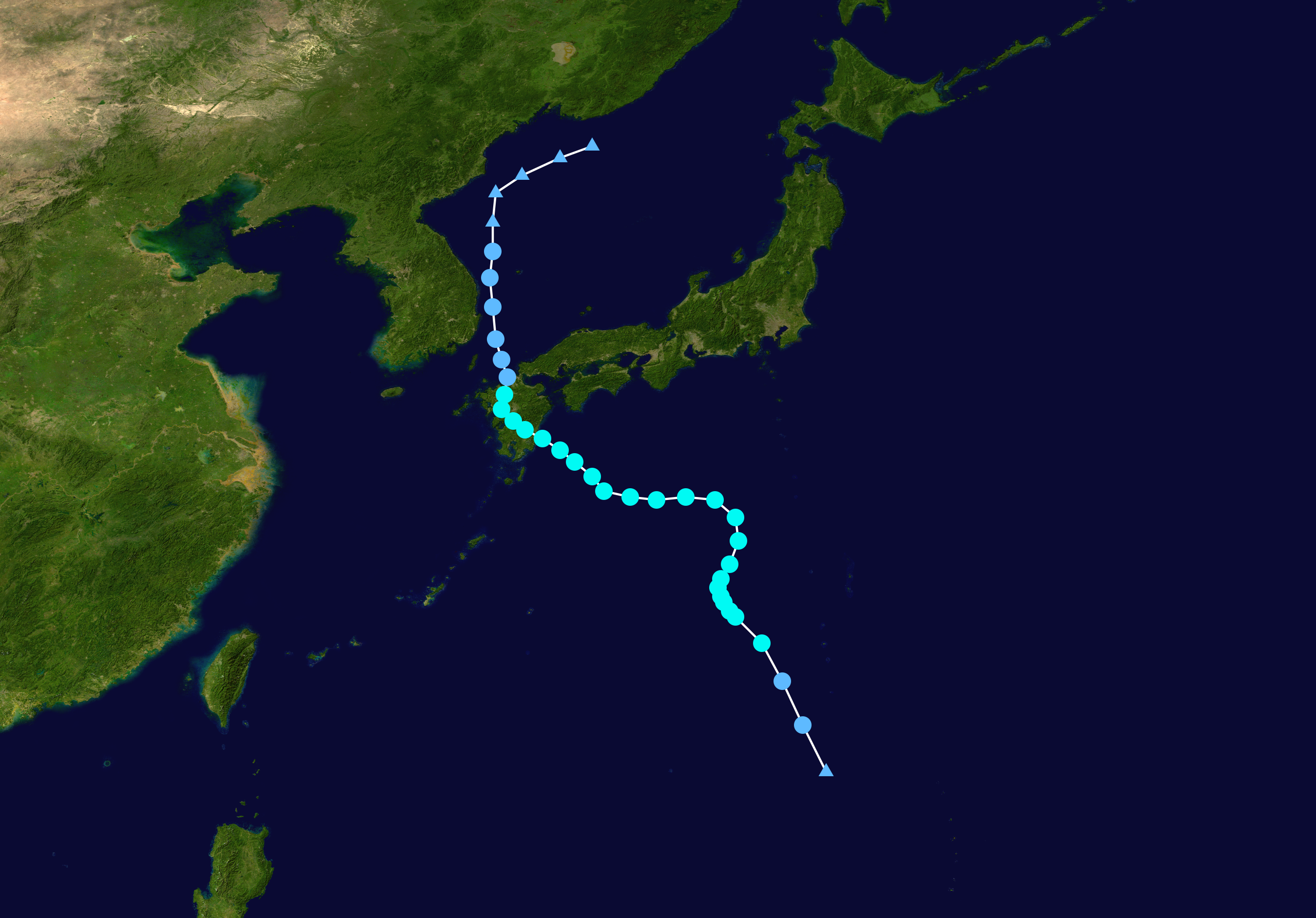 Tropical Storm Wukong (2006) track. Uses the color scheme from the Saffir-Simpson Hurricane Scale.